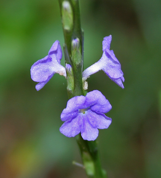 Porterweed Stachytarpheta jamaicensis in Talakona forest, in Chittoor District of Andhra Pradesh, India.